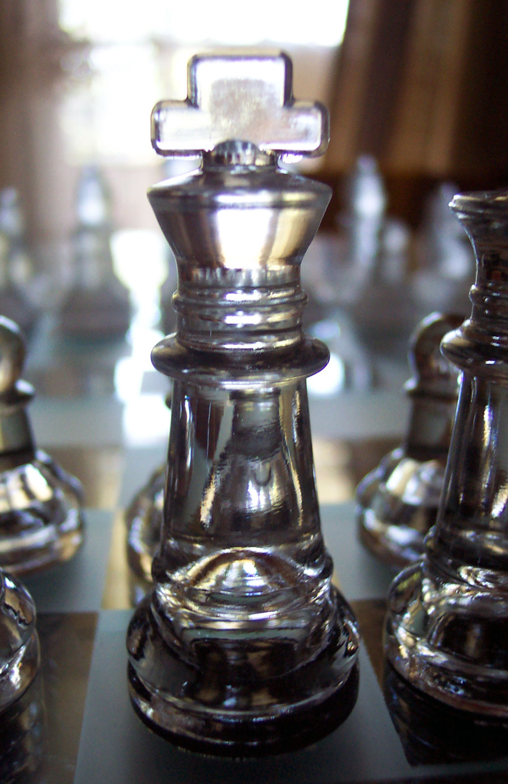 King piece in chess Taken by Enoch Lau on 25 December 2003. As a courtesy, please let me know if you alter this image or this image description page. Original filename was 100_1948.JPG.